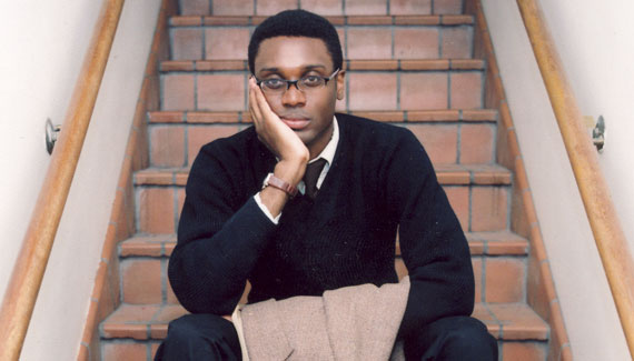 Shaun Scott, pictured in 2009. Photograph taken by Chris Grunder.